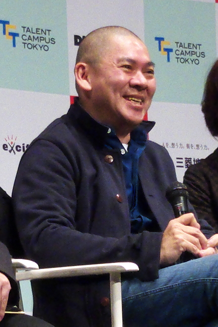 Malaysian-born Taiwanese film director Tsai Ming-liang at the Tokyo Filmex 2013